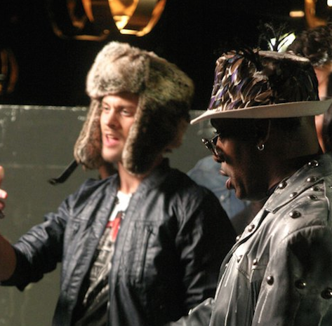 Kylian Mash & Coolio